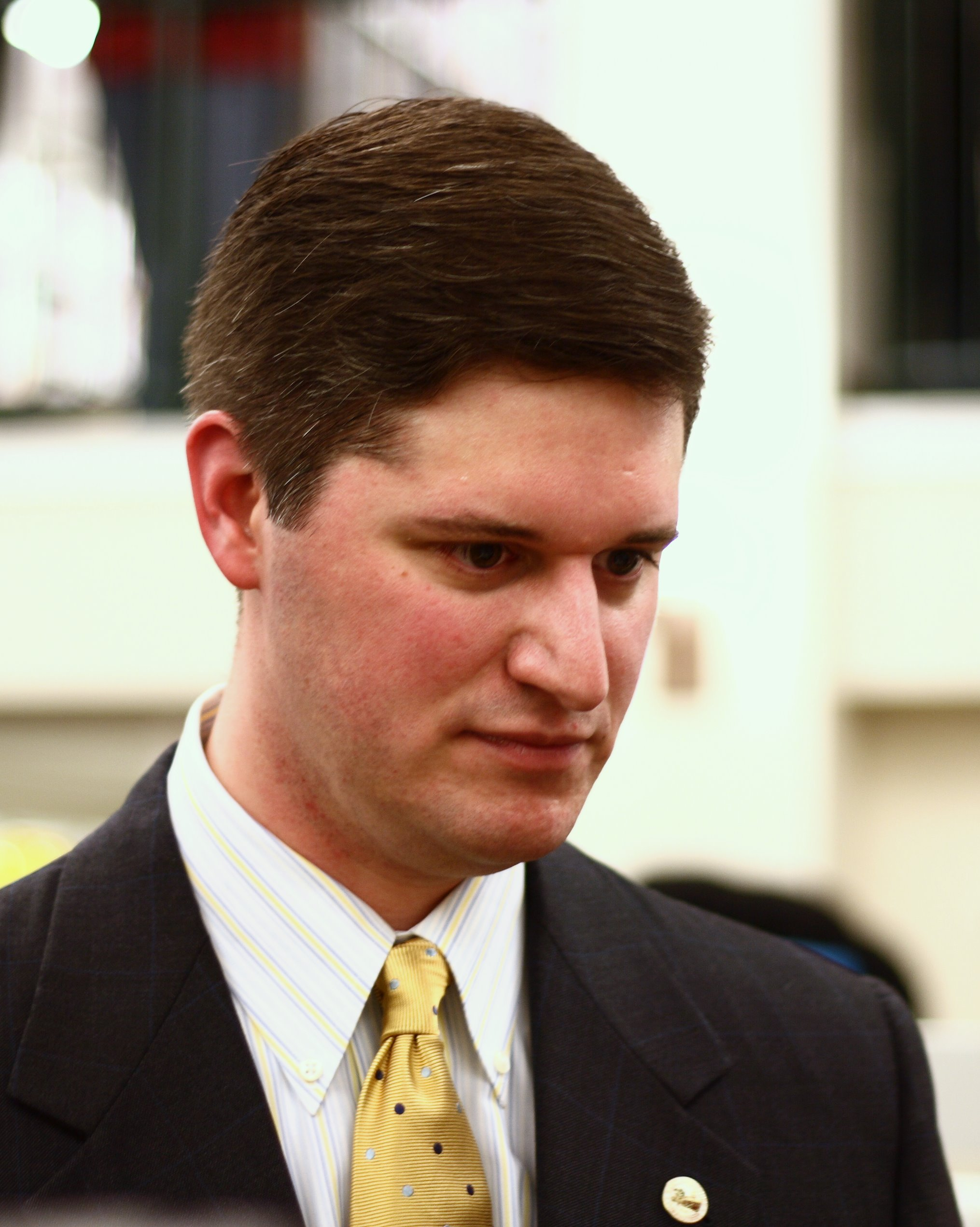 West Hartford mayor Scott Slifka at the ribbon cutting ceremony for the re-opening of the main branch of the West Hartford Public Library